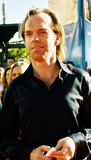 Hugo Weaving at the World premiere of the third part of the Lord of the Rings in Wellington, New Zealand.